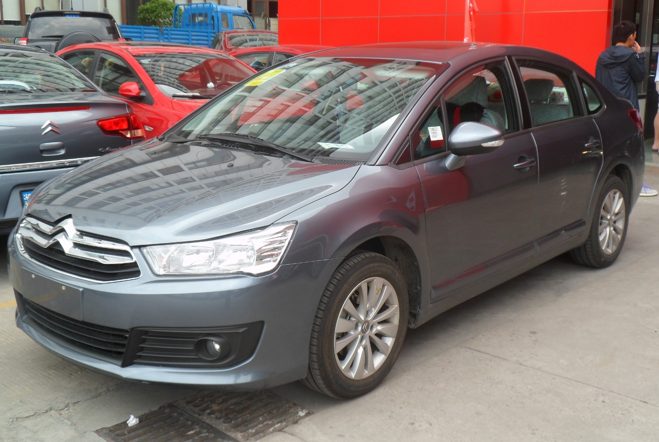 Citroën C-Quatre sedan facelift photographed in Shanghai, China.